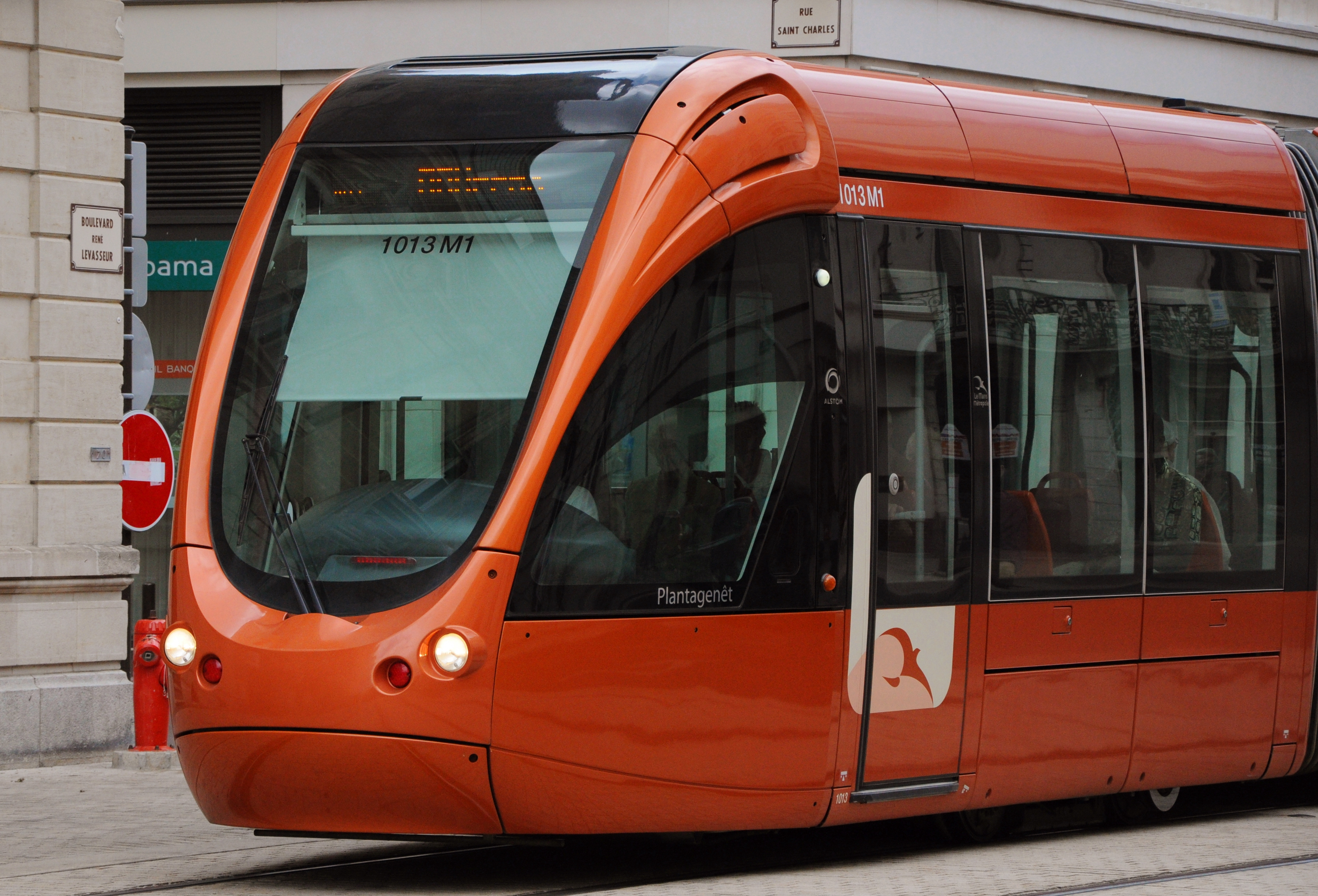 The tram across Boulevard René Levasseur in Le Mans (France).